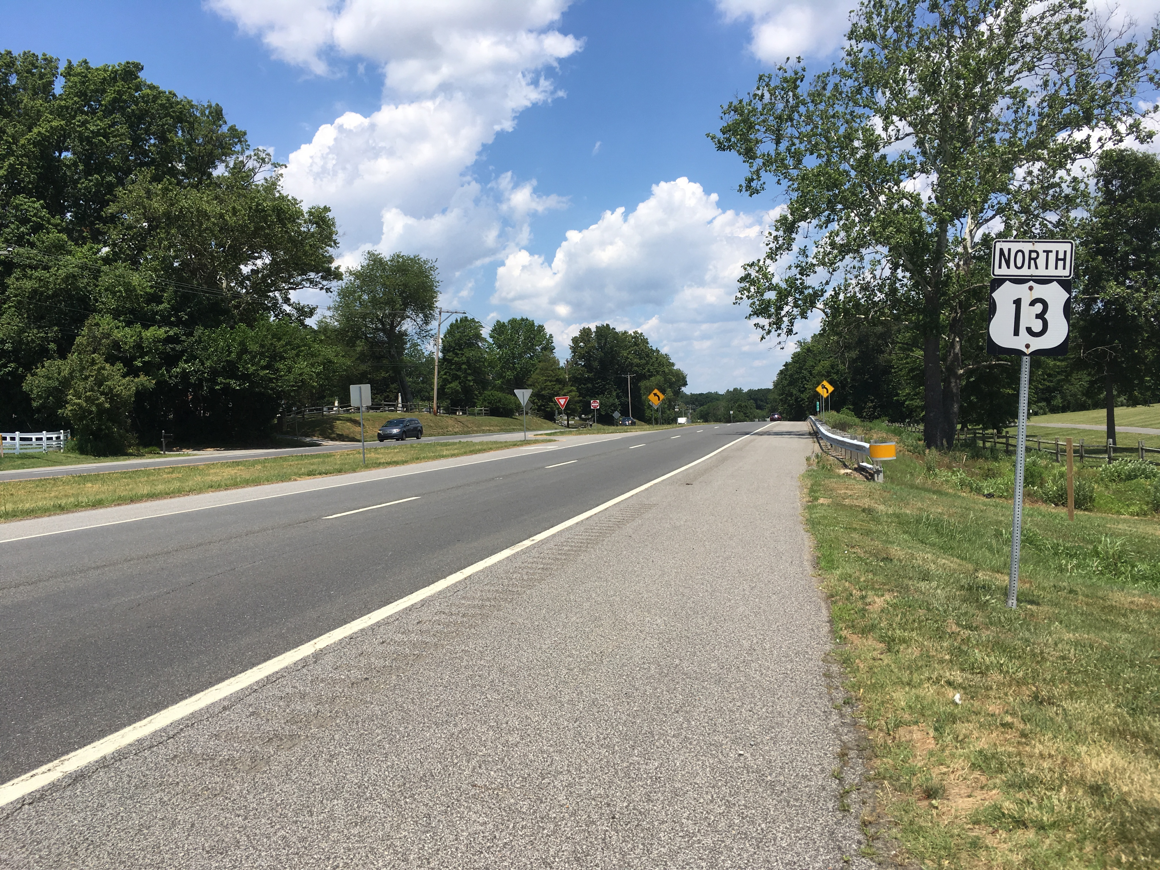 Northbound U.S. Route 13 (Dupont Parkway) past the intersection with Marl Pit Road north of Odessa, Delaware